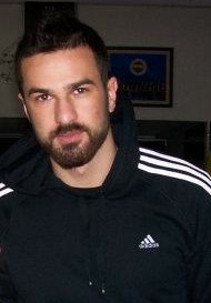 Kesimal Can Bartu Tesislerinde